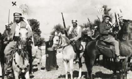 Arab rebels during the 1936 revolt in Palestine. To the left, underneath the "x" mark is Palestinian rebel leader Abd al-Rahim al-Hajj Muhammad and the last person to the right (underneath the "1") is Lebanese volunteer Maarouf Saad who later became an MP in Lebanon.